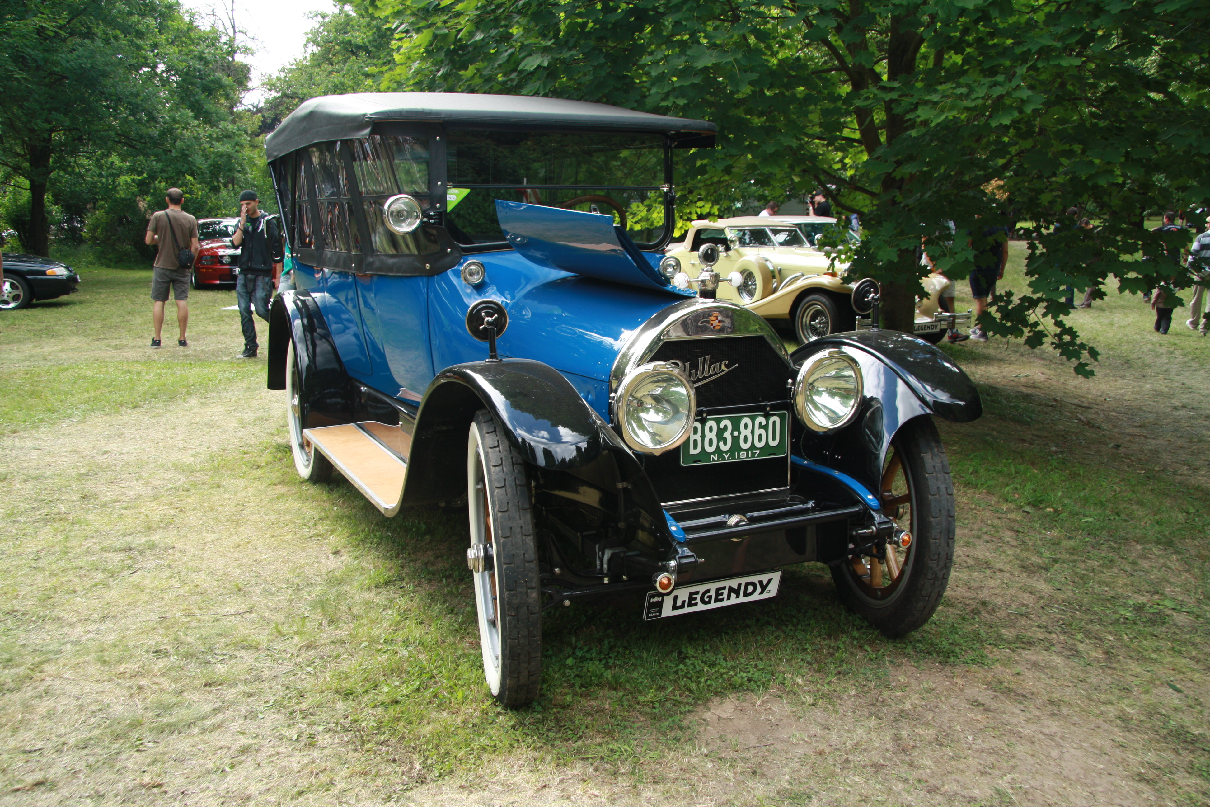 Cadillac Suburban at Legendy 2014.